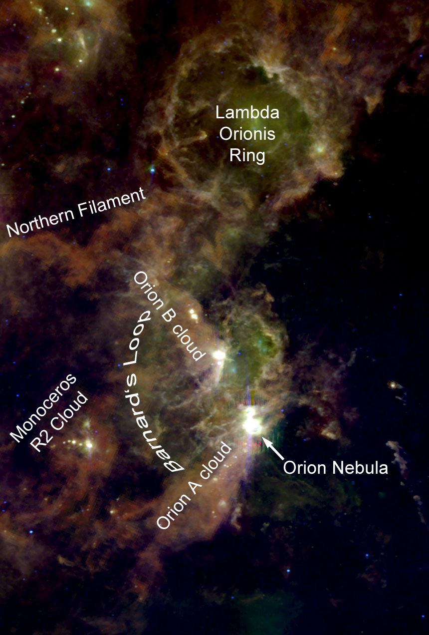 This is a labeled version of the Orion Molecular Cloud. It shows an IRIS 25+60+100 Micron map combined with the CO map from Dame et al. 2001.The regions are labeled with the help of Maddalena et al. 1986See unlabeled version hereImage Credit: IRIS + Dame et al. 2001